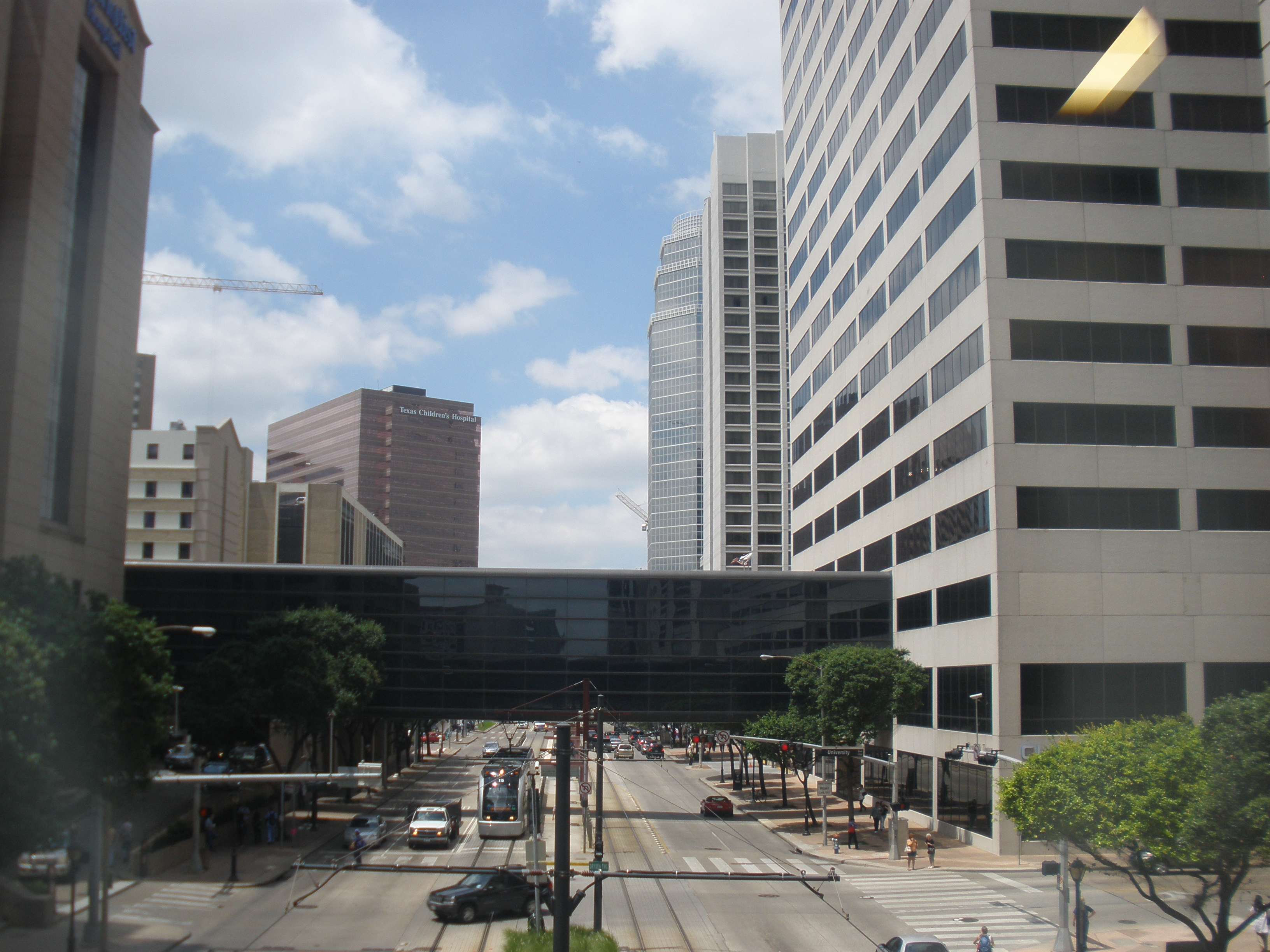 Main Street viewed from the crosswalk between two buildings of the Methodist Hospital